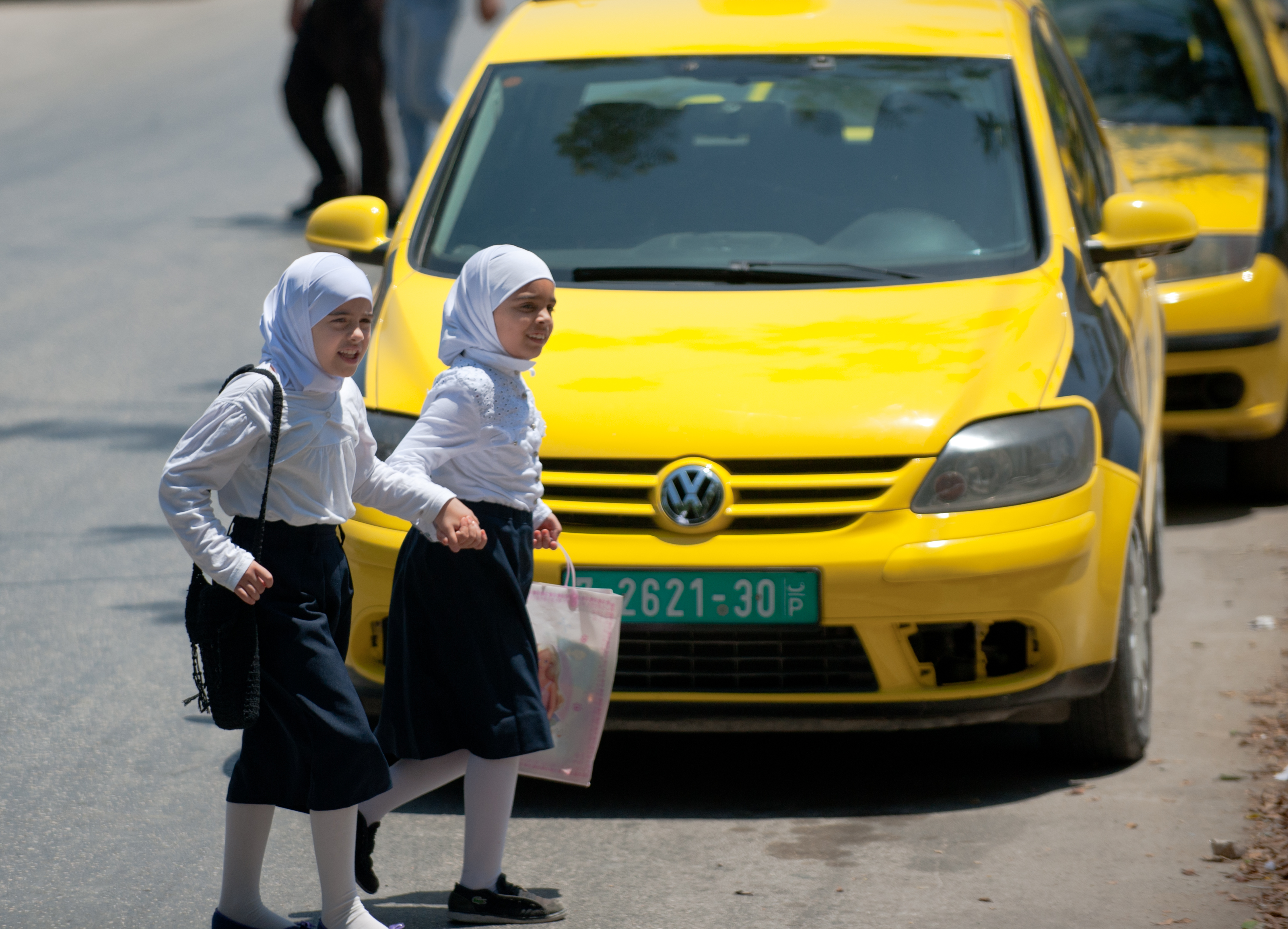 Children crossing a street in front of a taxin in Nablus, West Bank, Palestine